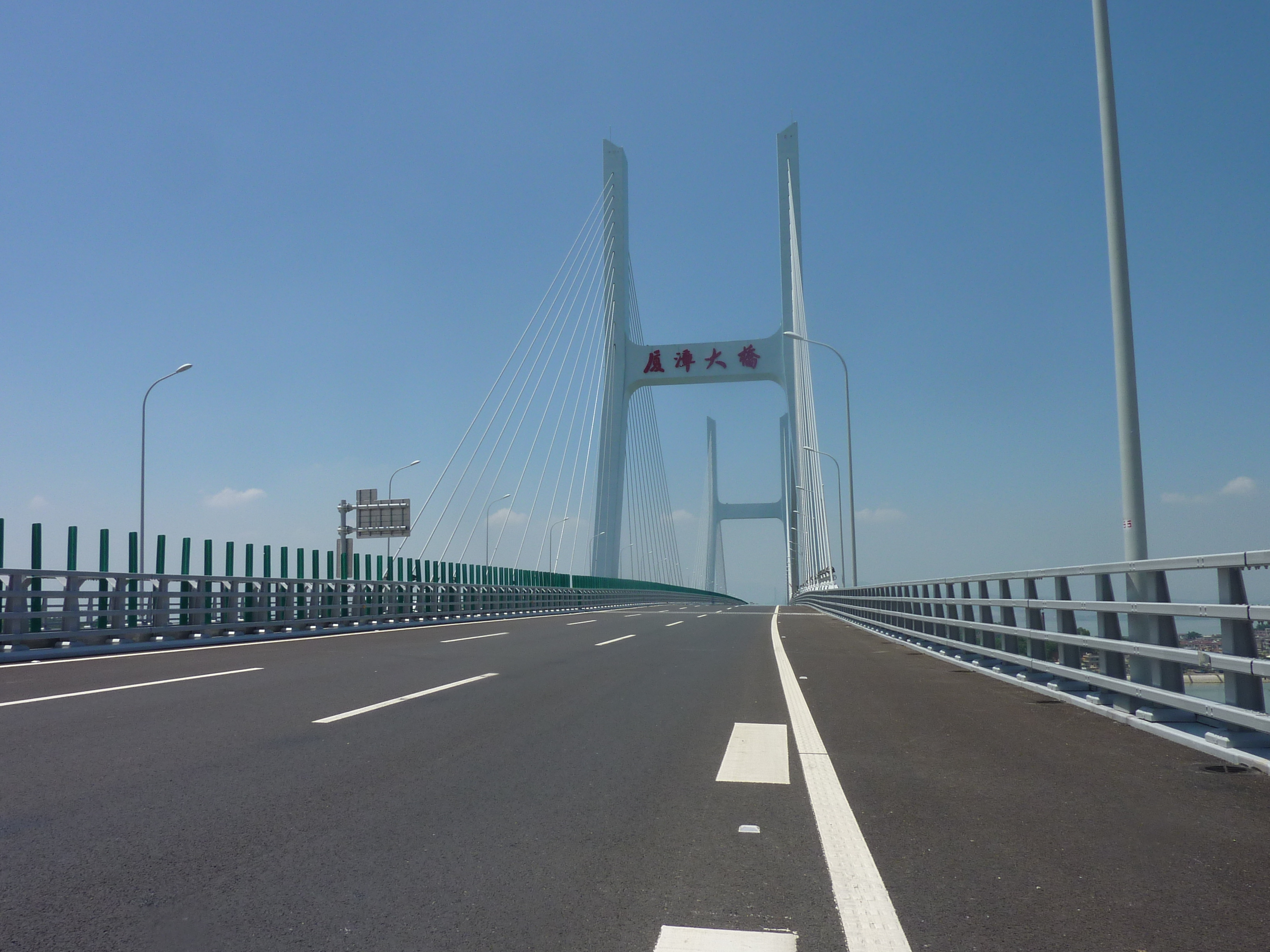 Xiamen-Zhangzhou Cross-sea-bridge, Chinese name XIAZHA